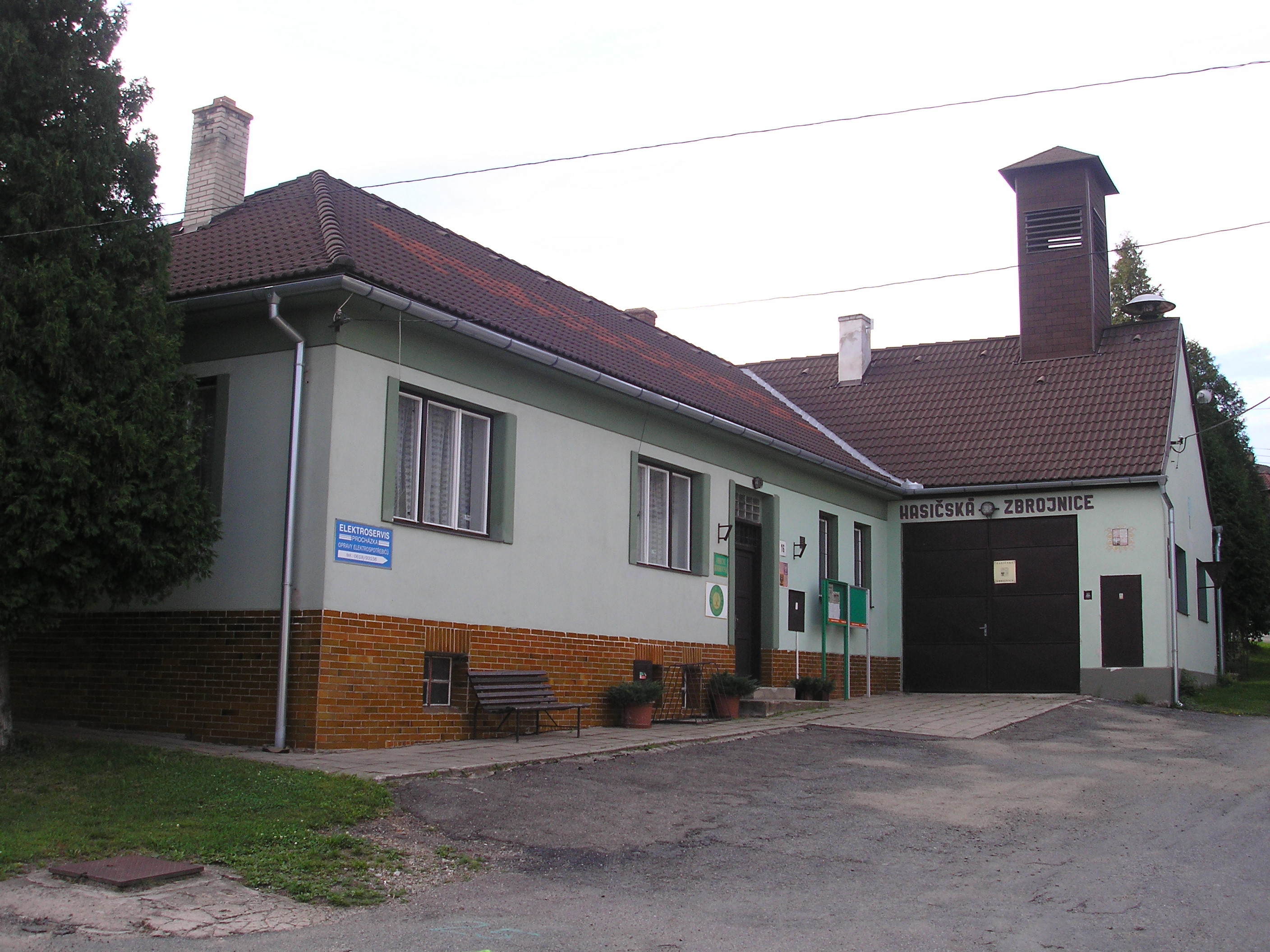 Obecní úřad, fire station and library in Mikulovice, near Třebíč, CZ